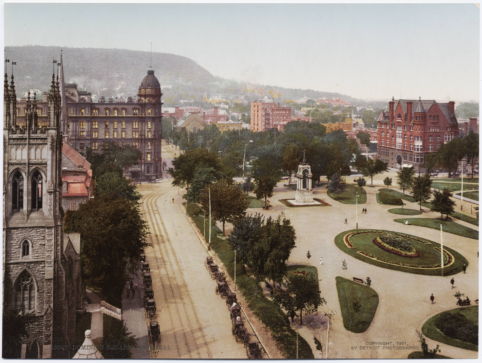 A photochrom postcard published by the Detroit Photographic Company.